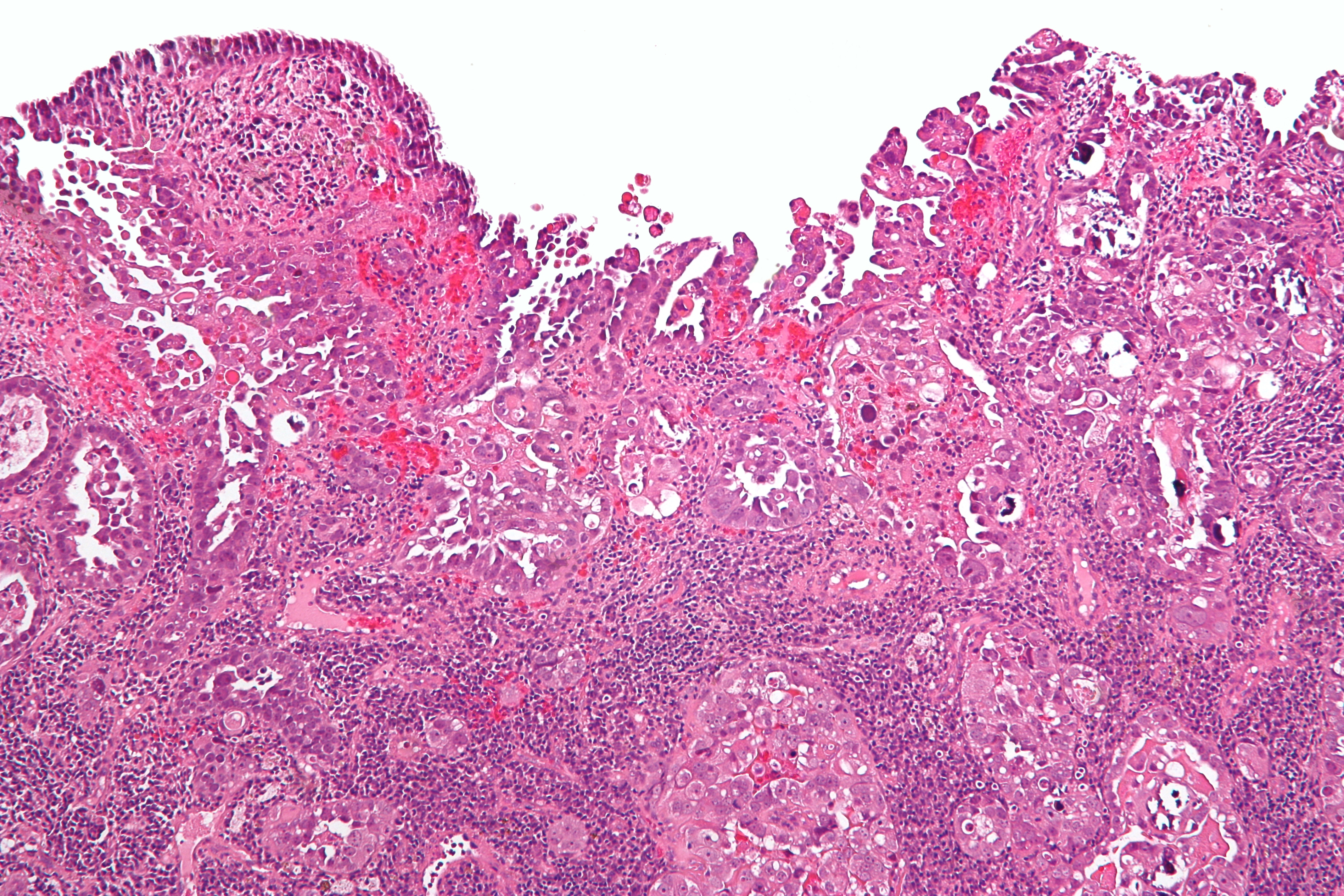 Low magnification micrograph of uterine papillary serous carcinoma, also uterine serous carcinoma. H&E stain. Serous carcinoma is a less common form of endometrial cancer. It is extremely aggressive and tends to arise in the setting of atrophy. Classically, it affects post-menopausal women. Features Columnar (or cuboidal) cells with marked nuclear size variation and irregularity of the nuclear membrane. Cilia. Psammoma bodies - present in approximately 40-50% of tumours. Papillae - nipple-shaped structures with fibrovascular cores, not always present; ergo, uterine papillary serous carinoma may be a misnomer. Related images Animation showing 3-D nature of cluster. Component of animation. Component of animation. Another case. Low mag. High mag.